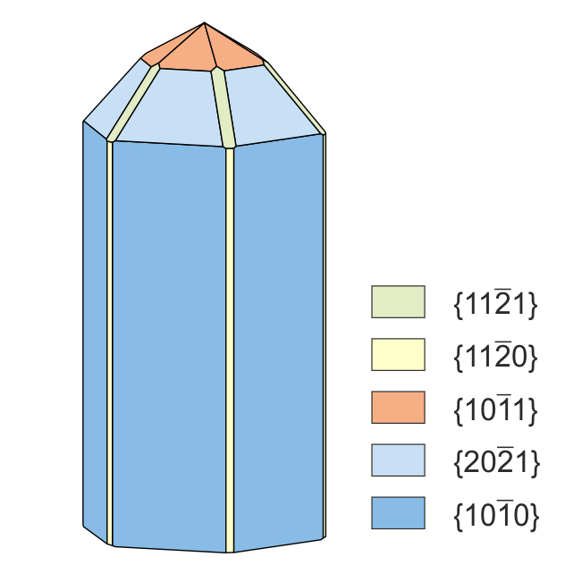 Drawing of a prismatic gaudefroyite crystal; reference: G. Jouravsky & F. Permingeat (1964), Bulletin de la Société Française de Minéralogie et de Cristallographie vol. 87, p. 217.